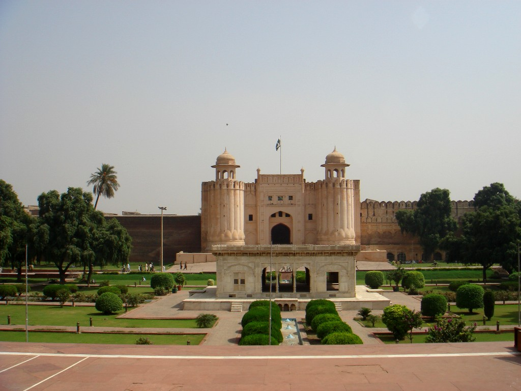 Picture by Kaiser Tufail, 25 Sep 2006